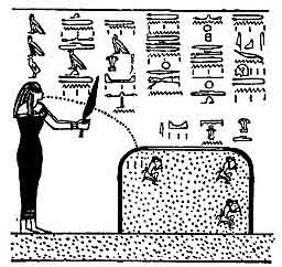 (See Ch. 11 of the Book of the Am-tuat at .)